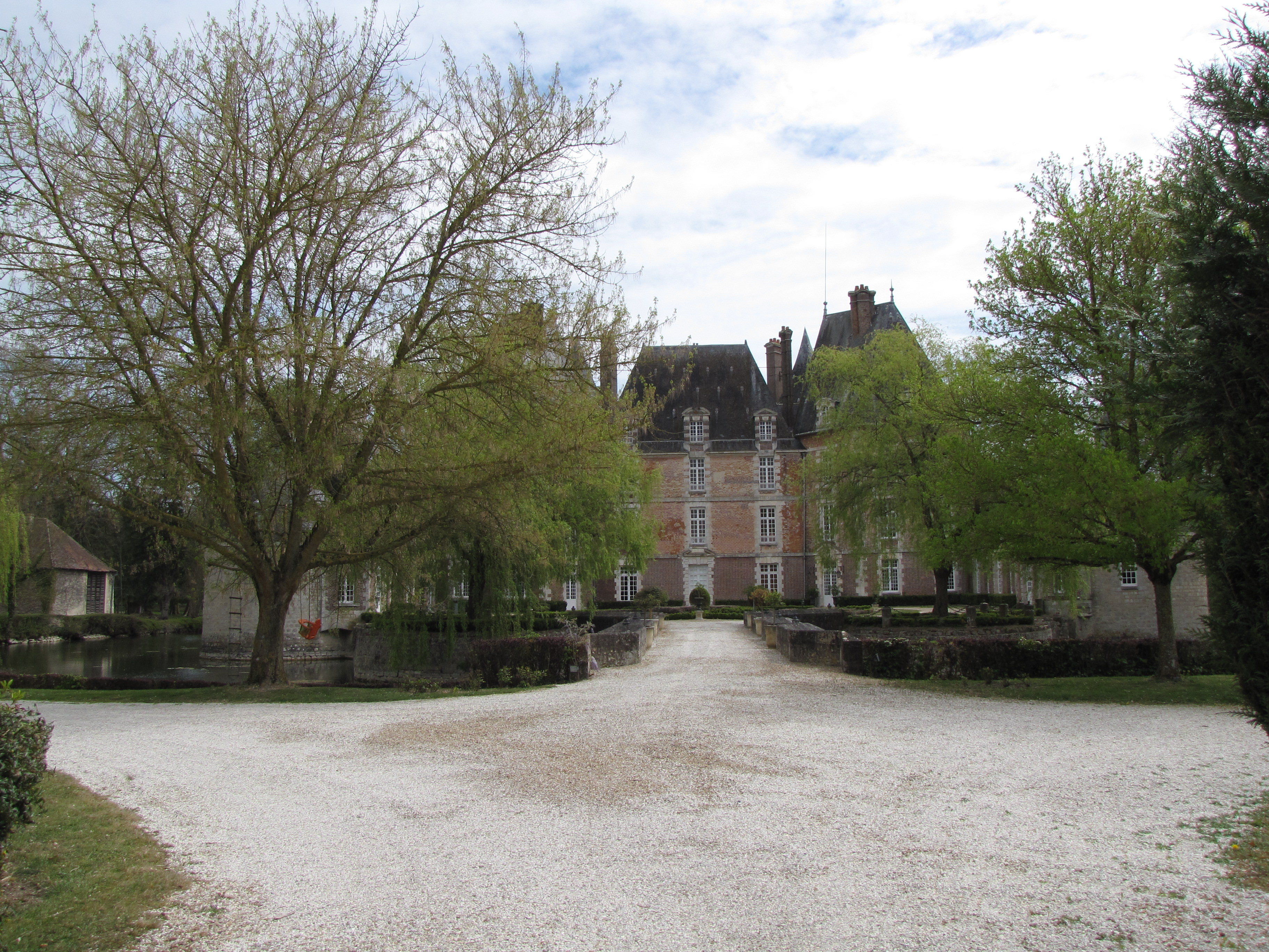 Château-Renard, Loiret. la Motte castle.